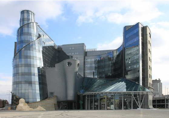 New TVP Building in Warsaw